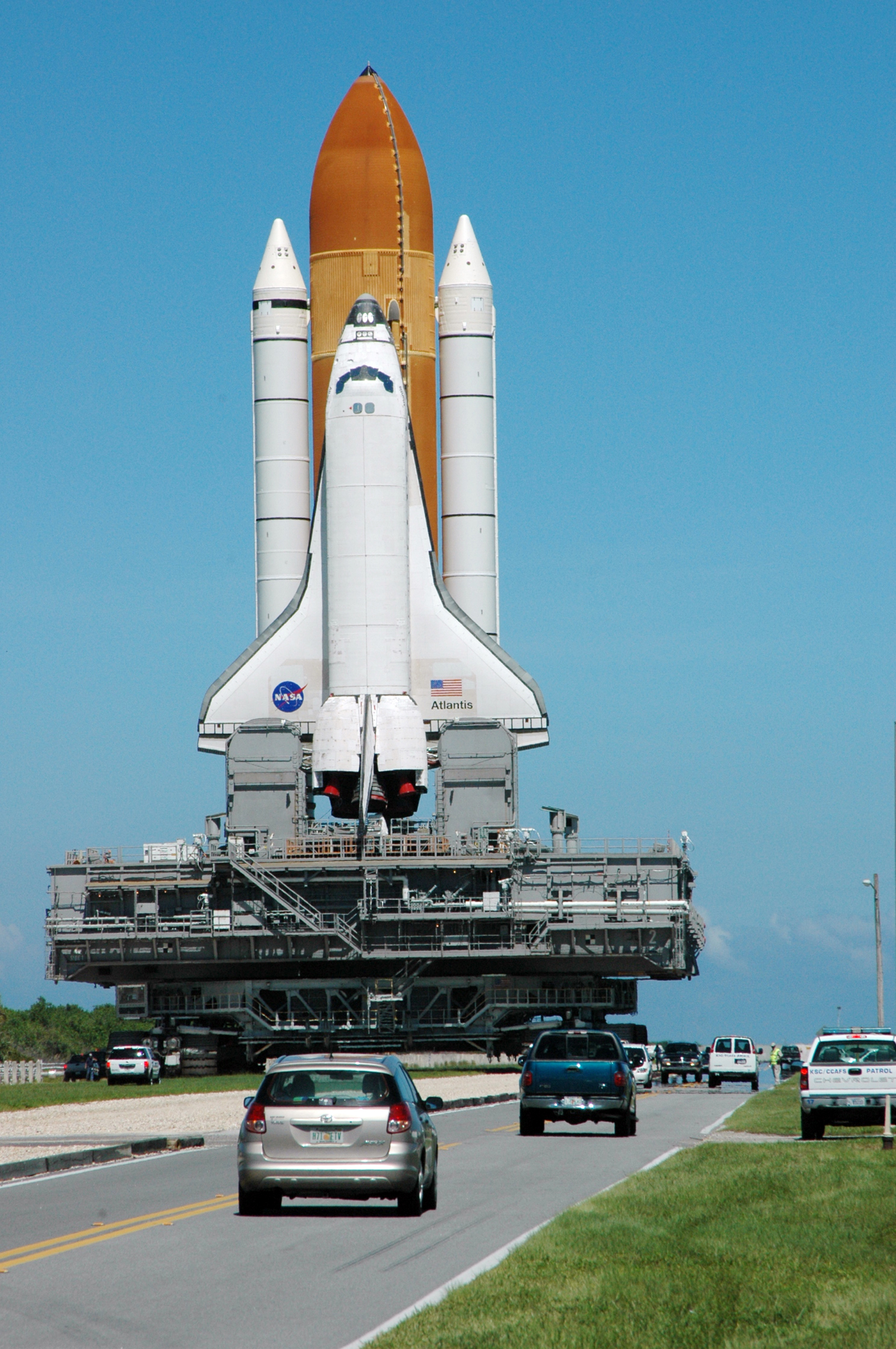 Space Shuttle Atlantis heads back to Launch Pad 39B where it will ride out Tropical Storm Ernesto.